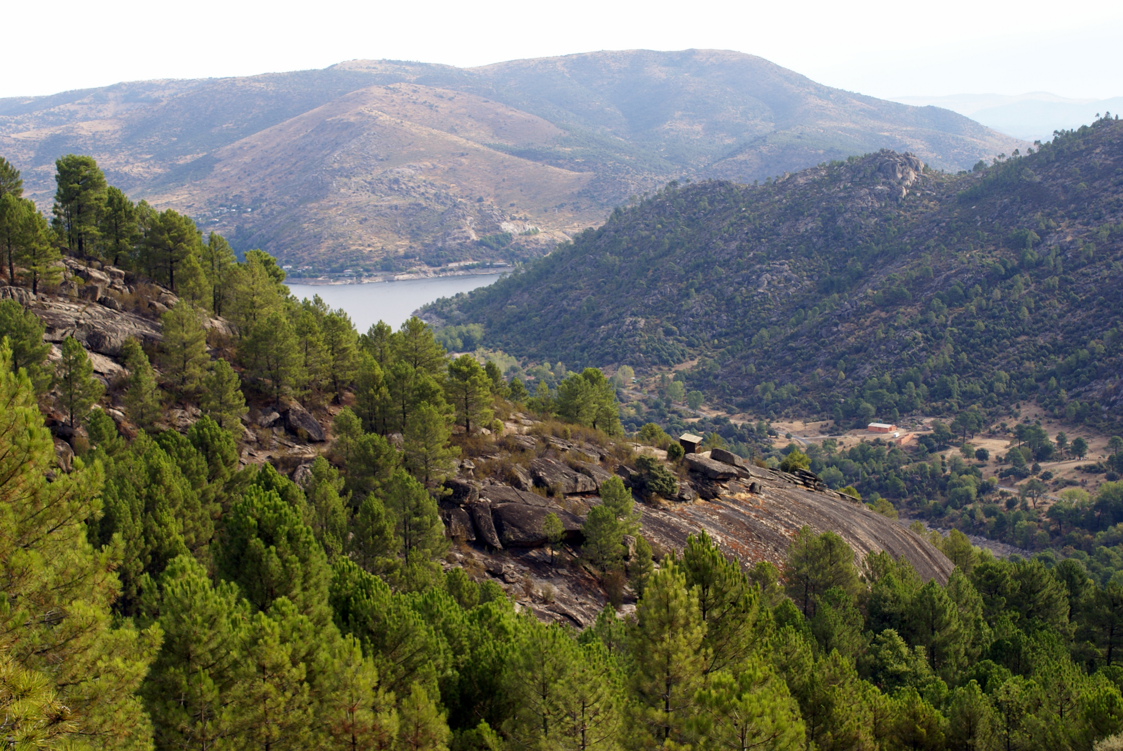 Valle de Iruelas, in Ávila, Spain. Footpath "Lancha de las Víboras", PRC-AV-53. View from a vulture viewpoint with the El Burguillo reservoir. This is a photography of a Special Area of Conservation in Spain with the ID: ES0000116. Natura2000 entry, EEA entry